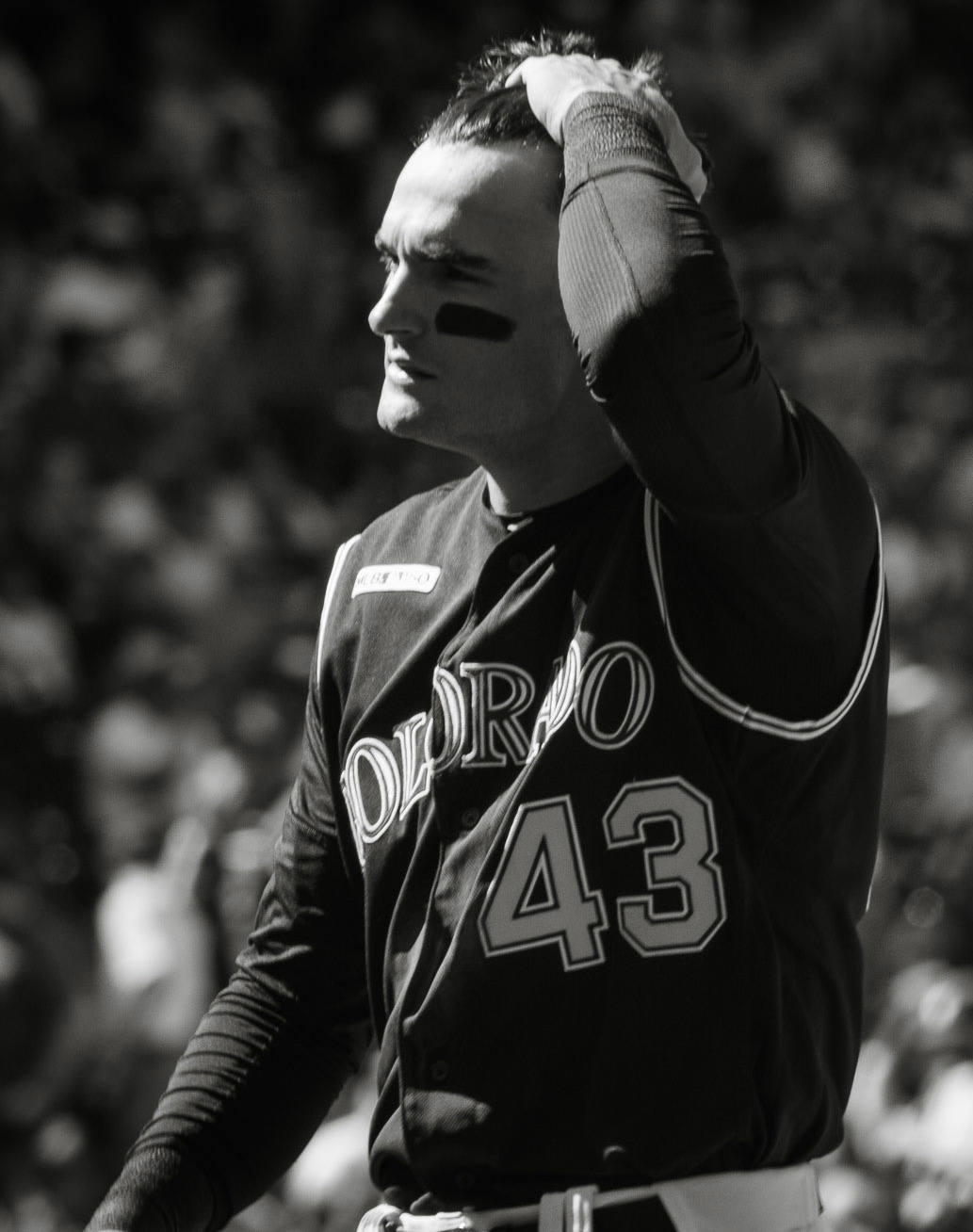 Rookie Sam Hilliard of the Colorado Rockies walks off the field between innings during a September 2019 game at Coors Field in Denver.